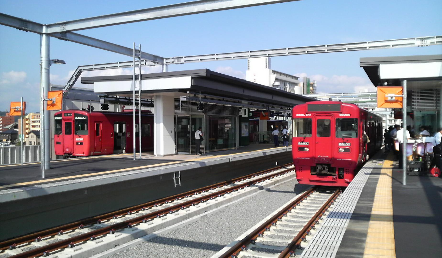 Six or seven, the eighth home of elevated become Ooita station. I photographed it on August 24, 2008 when the use of the home was started.